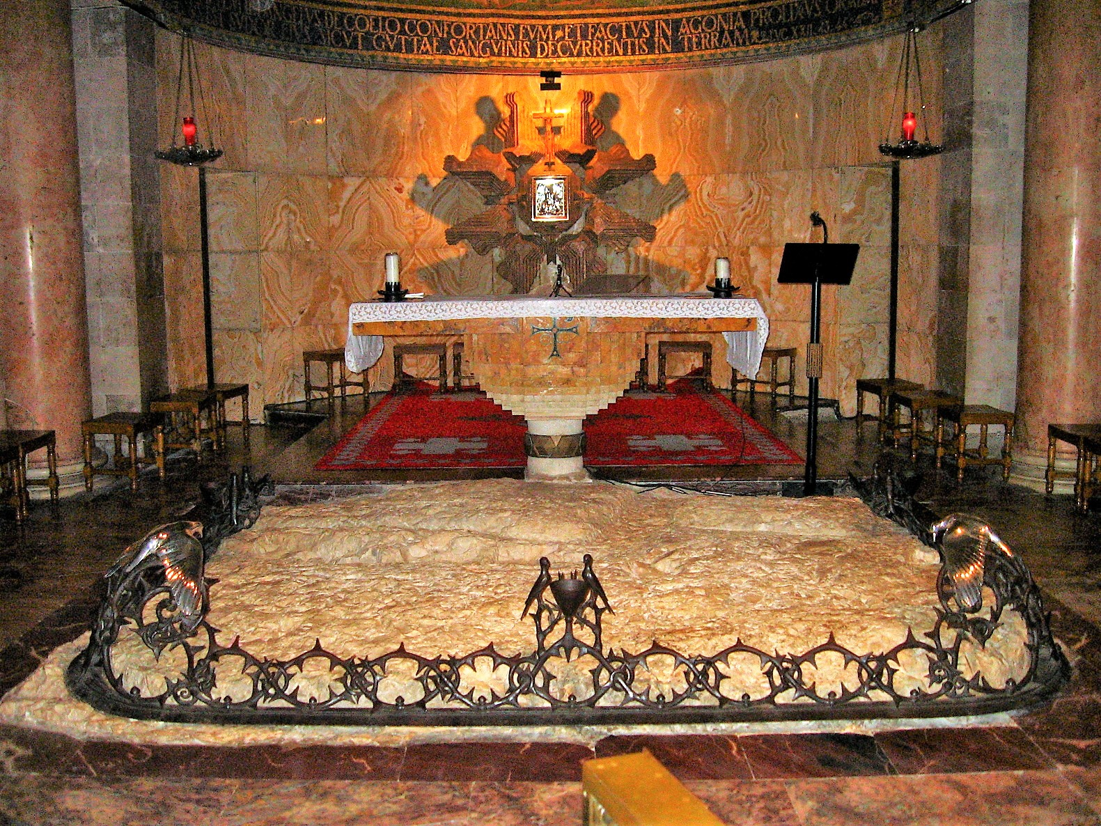 The altar of the Church of All Nations (Jerusalem) on Mount of Olives, in front of which there is the bedrock where Jesus has prayed before the night of his arrest.